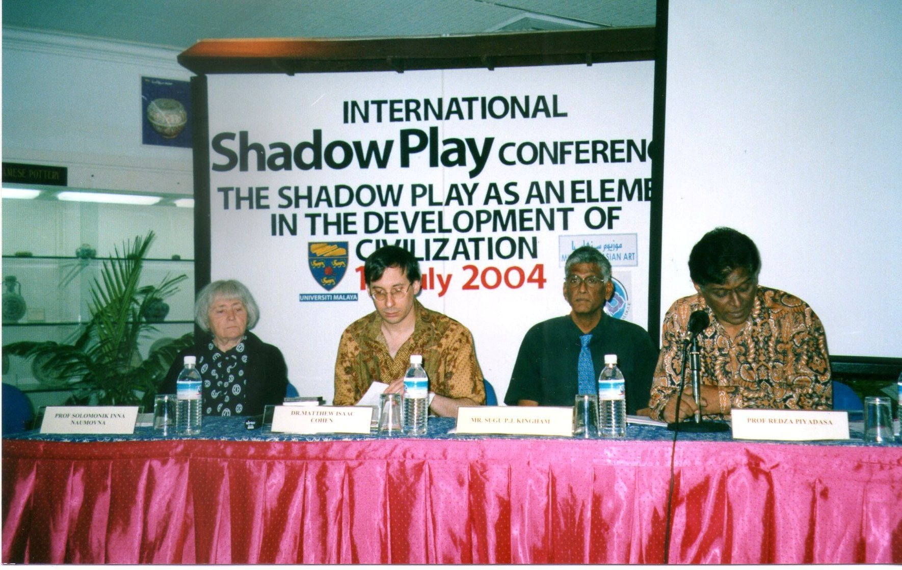 Inna Solomonik Russian scholar